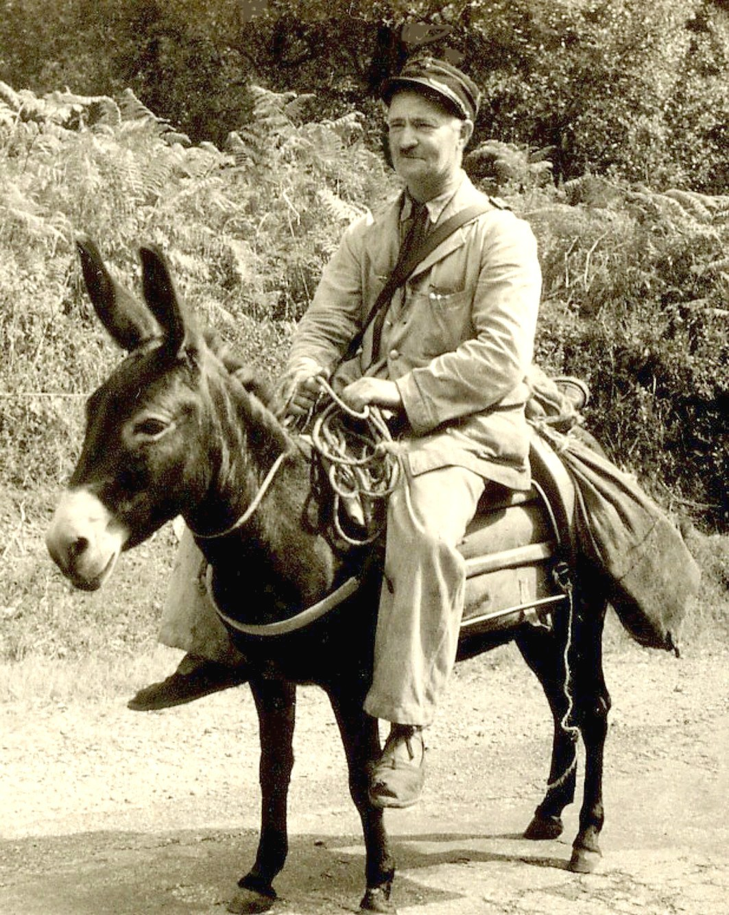 Mailman in service in Luri, Haute-Corse, Corsica